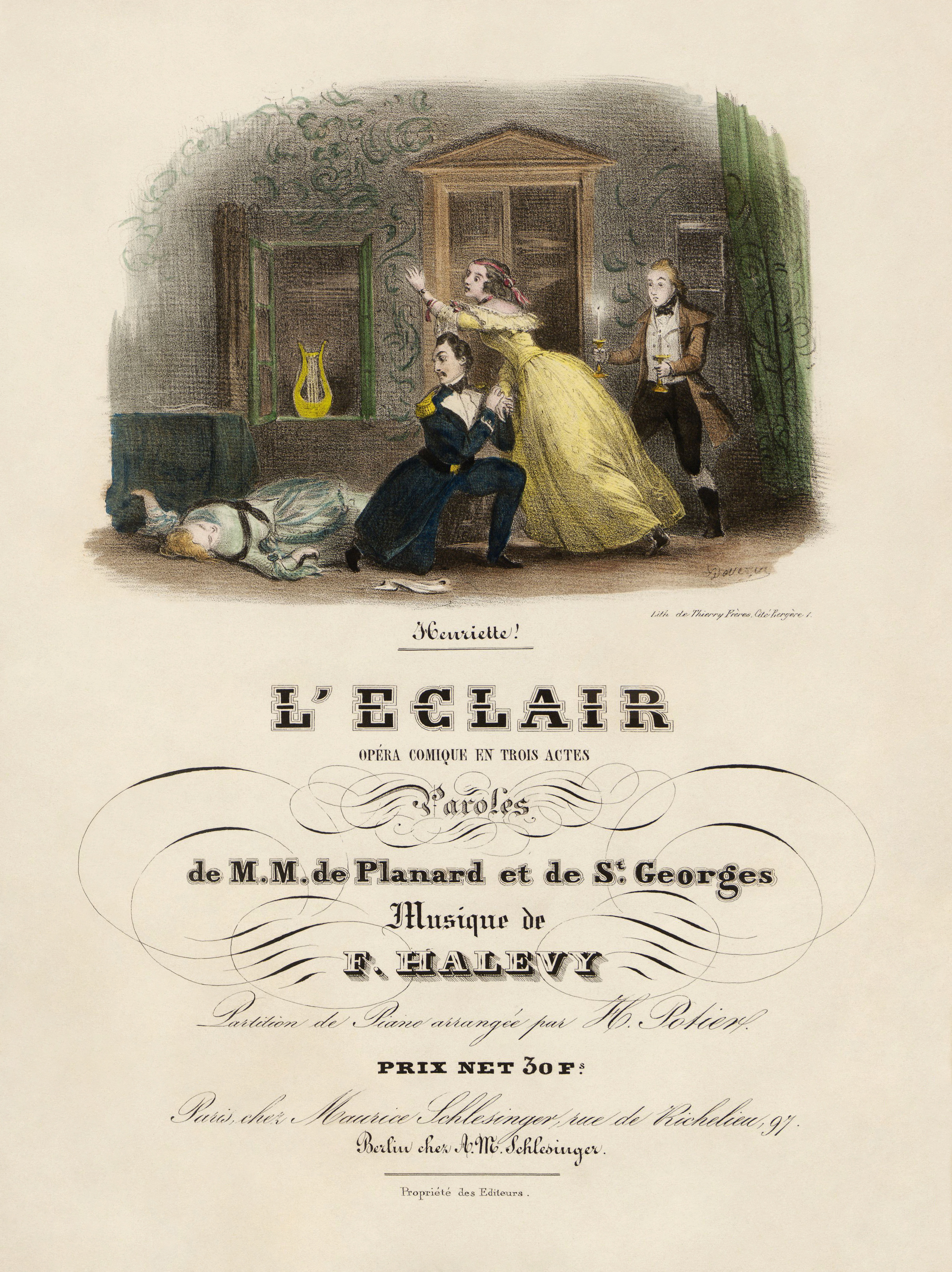 Hand-coloured title page to a an 1836 vocal score to Fromental Halévy's , L'éclair. This is possibly the first edition: the opera premièred on 16 December 1835.